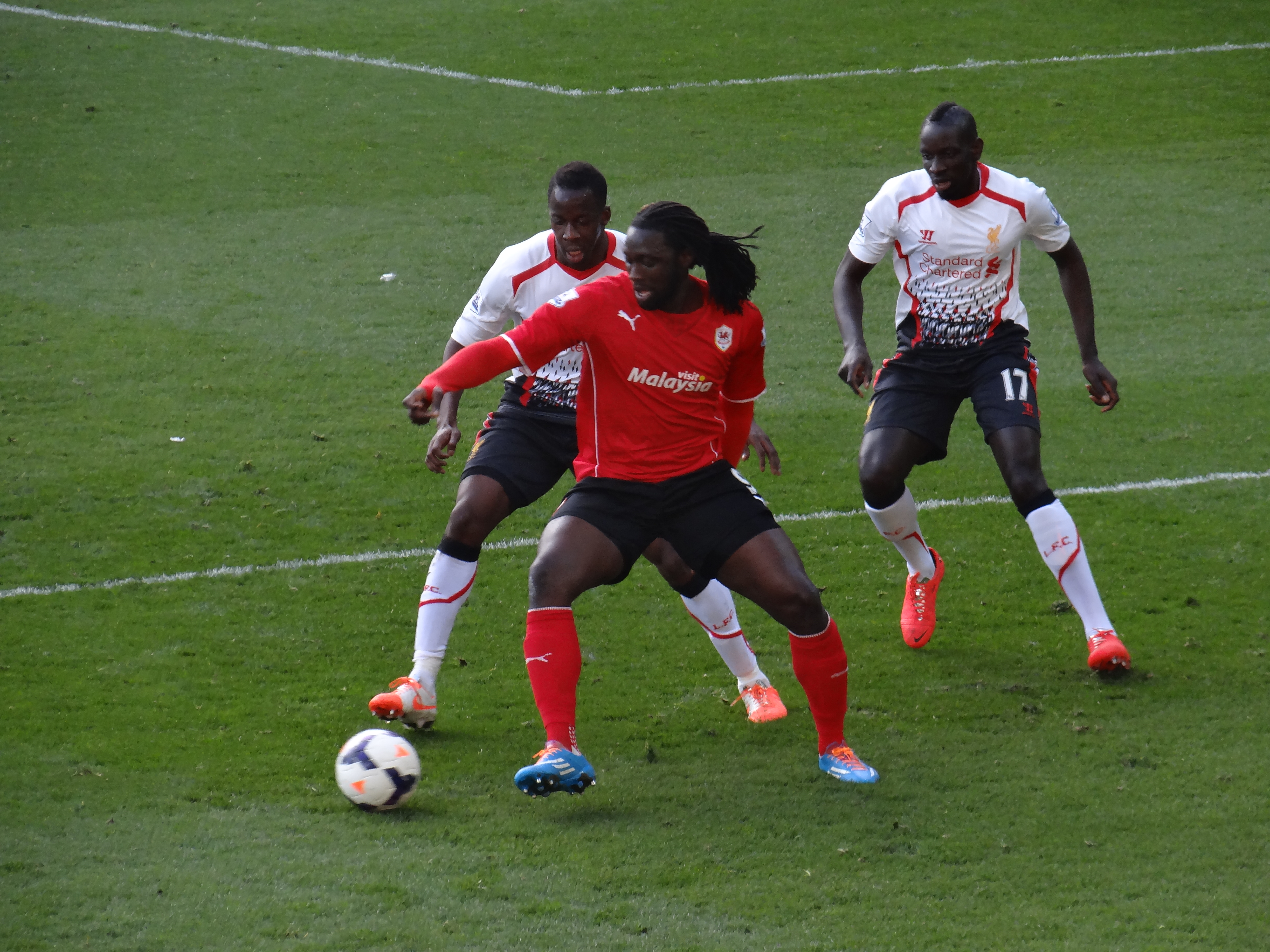 French football players of Liverpool: Aly Cissokho (left) and Mamadou Sakho (right) competing with Trinidadian player of Cardiff City Kenwyne Jones (center).